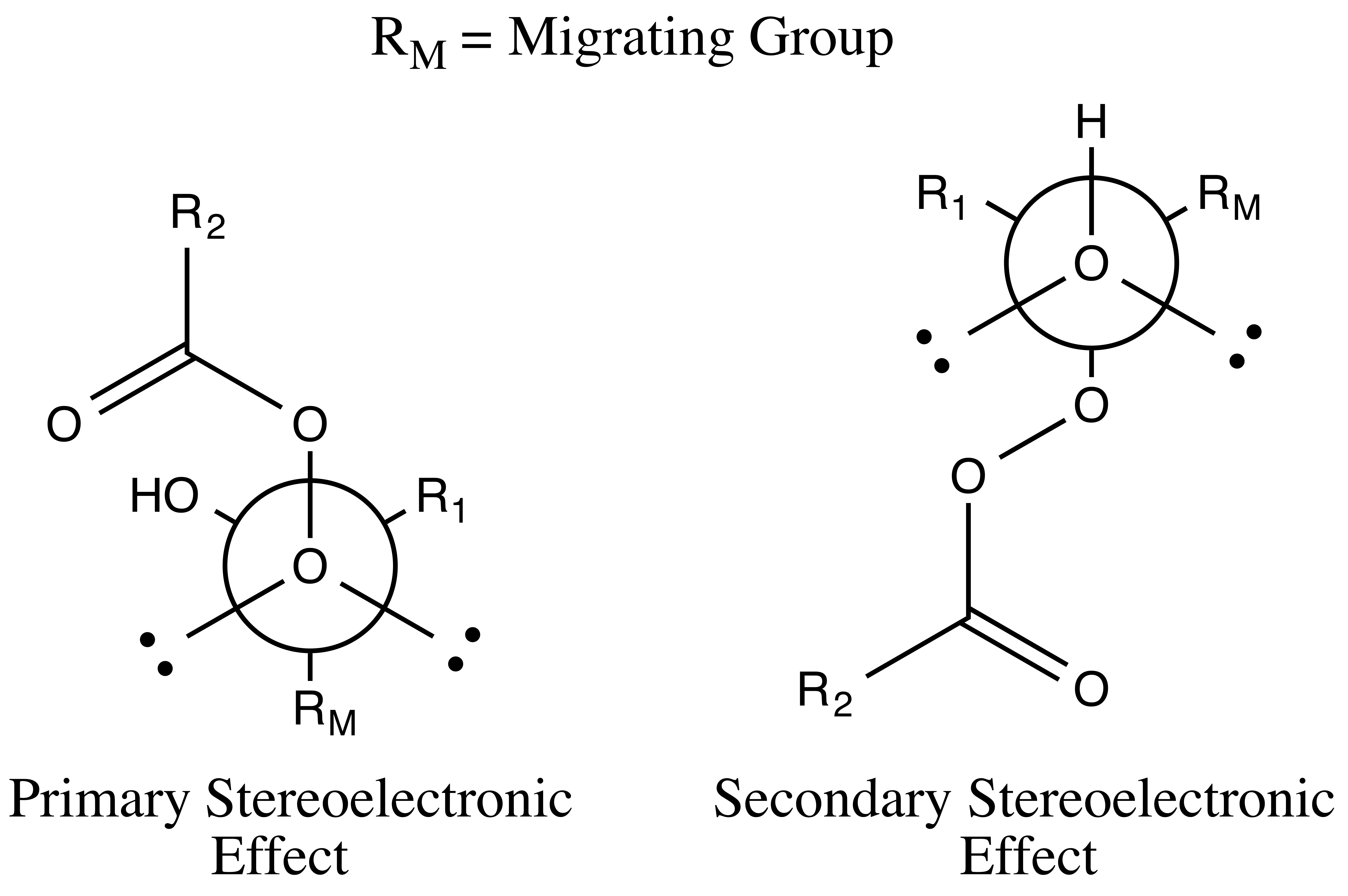 Baeyer-Villiger Oxidation Stereoelectronic Effects